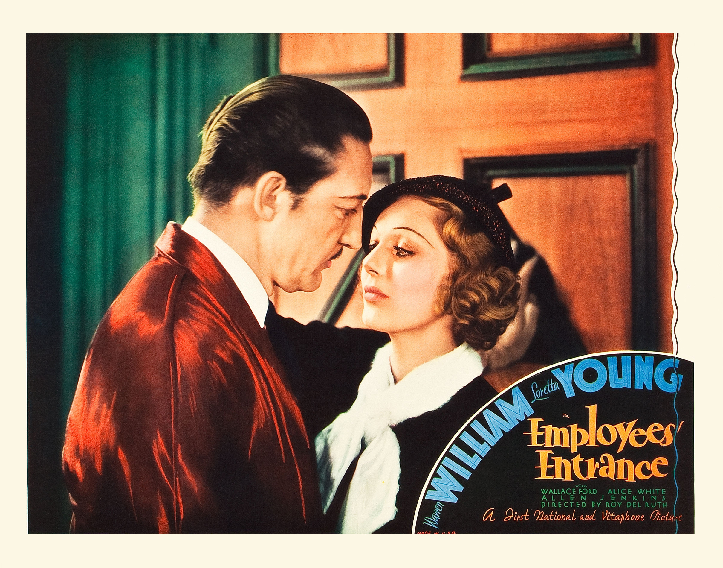 Film poster/lobby card for the 1933 film Employees' Entrance